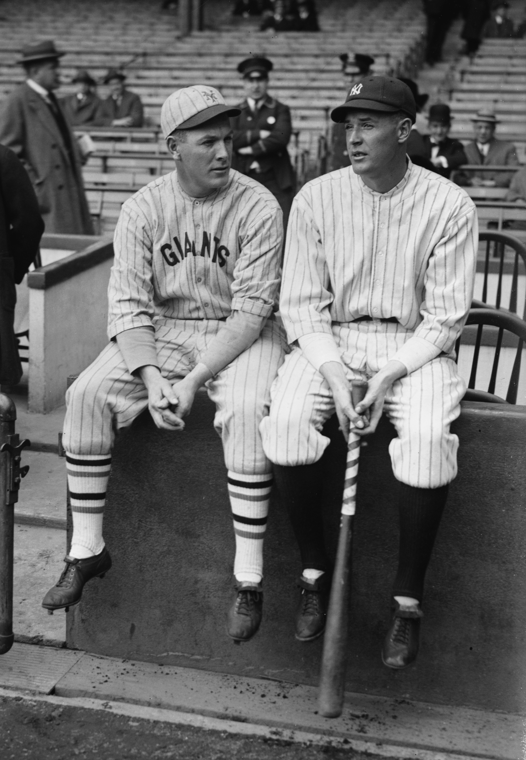 Brothers Emil Meusel of the New York Giants and Bob Meusel of the New York Yankees. Cropped from original LOC image.